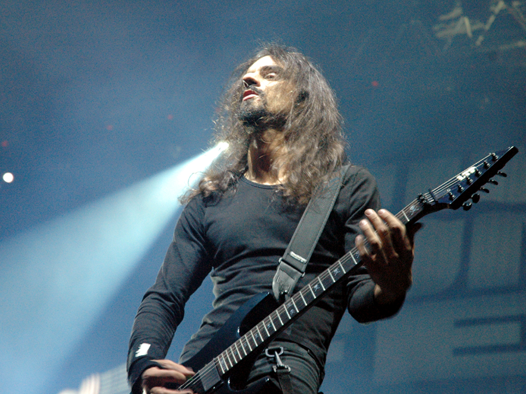 Makro from Samael on Hunter Fest 2007